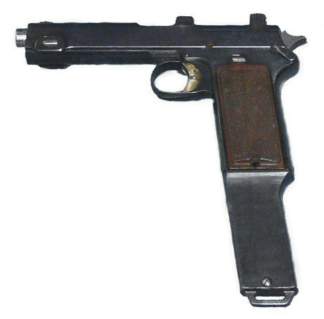 Steyr M1912, standard sidearm of the Austro-Hungarian Army. Fully automatic machine-pistol version.